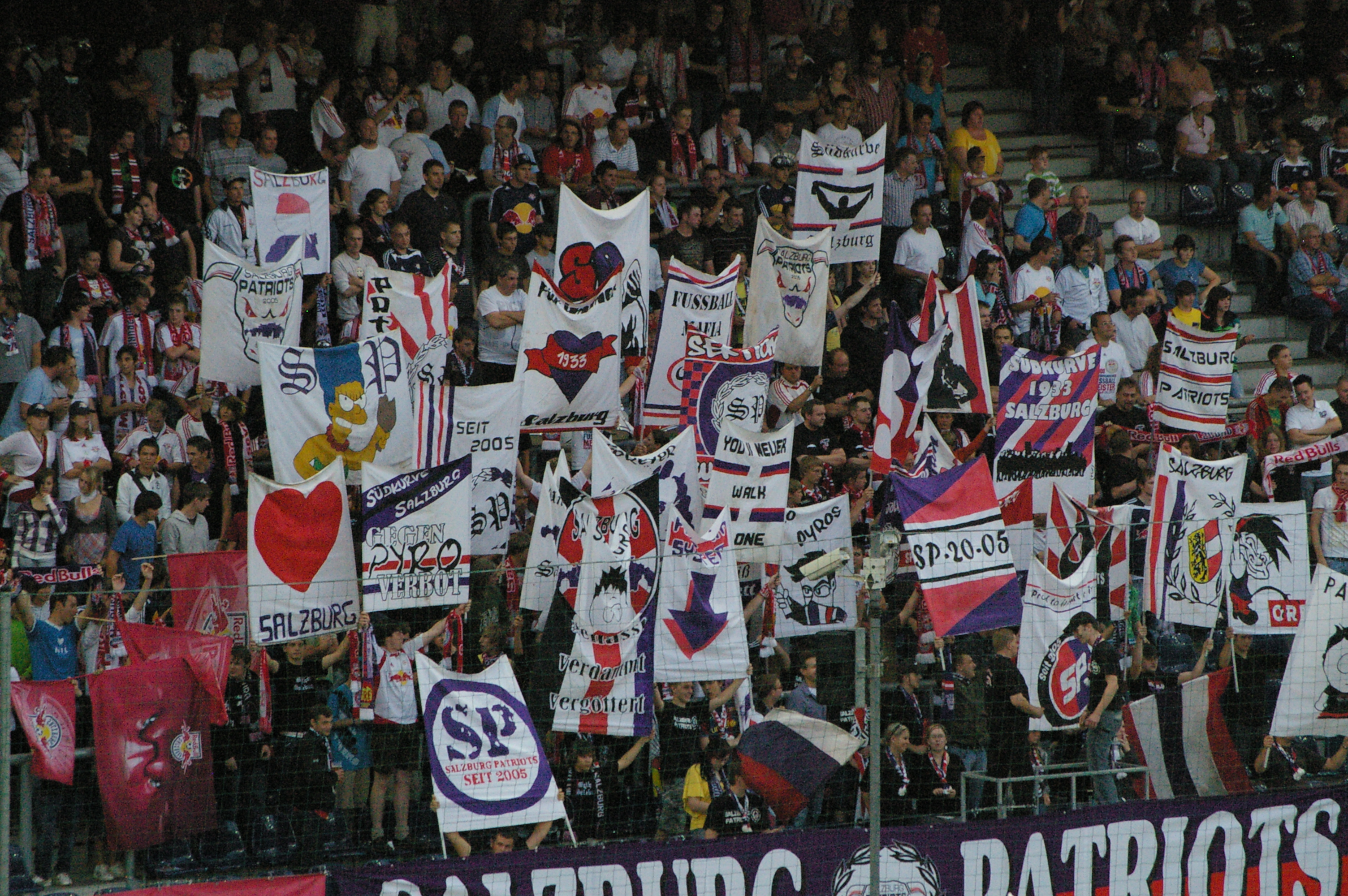 Red Bull Supporters match vs Bohemian Dublin Quampions League Qualifier 2nd round